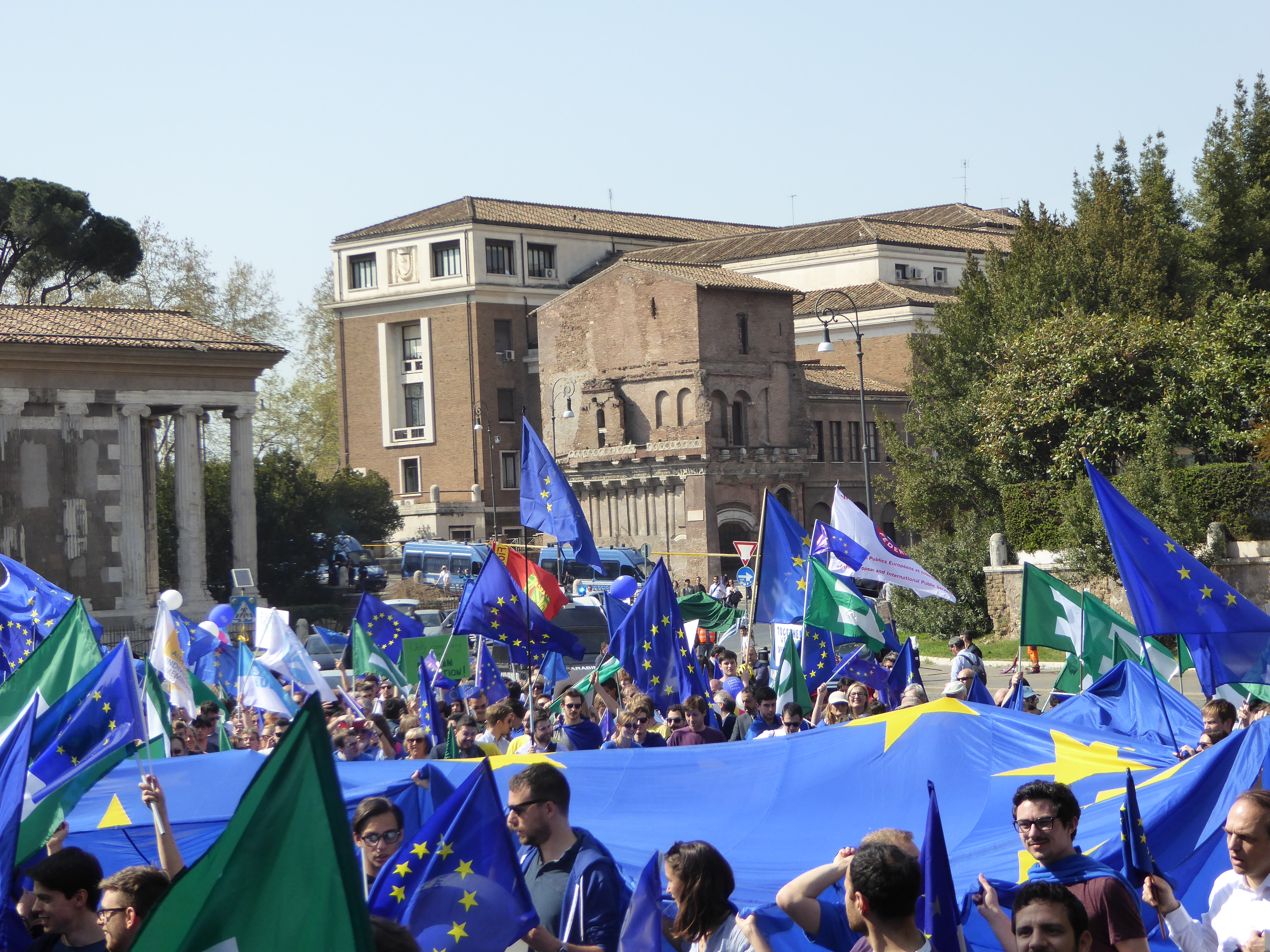 Rome, Bocca della verità, march.